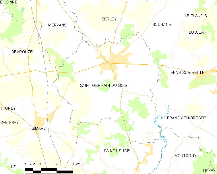 Map of French municipality